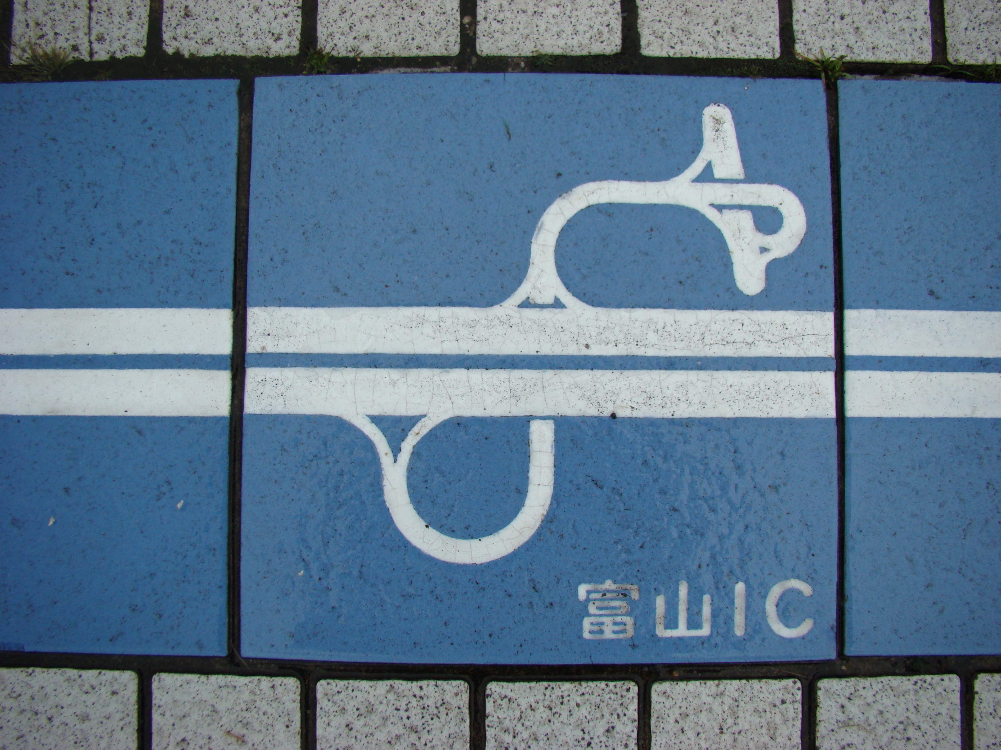 The tile which designed a shape of the Toyama Interchange（Hokuriku Expressway）（There is this tile in Hokuriku Expressway Nadachi-Tanihama Service Area.）. Place - Chayagahara,Joetsu City,Niigata Prefecture,Japan Date - August 9, 2009 Format - JPEG, 3264x2448pixel, 24bit colors. Photographer - NALA Wiki (talk)